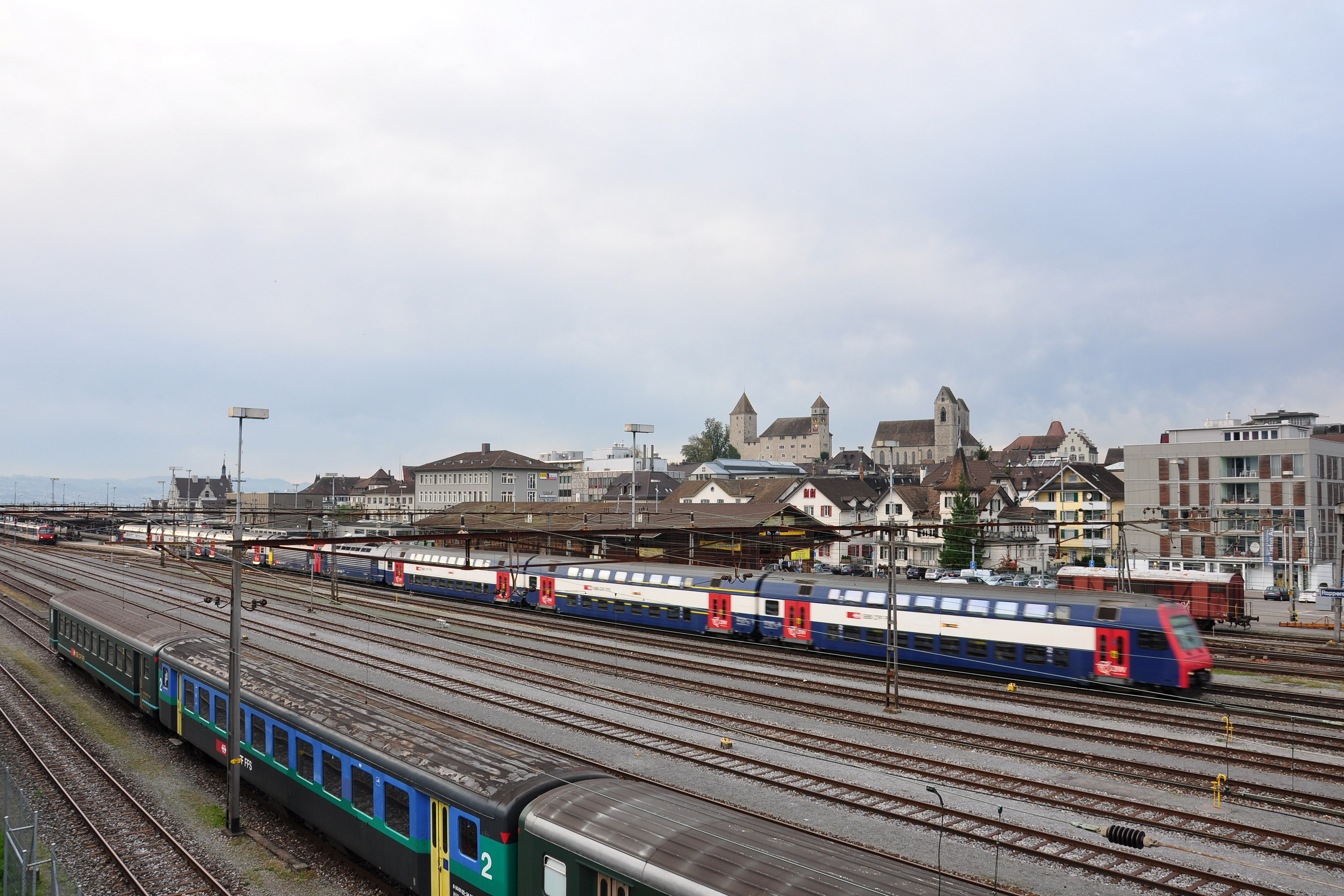 Railway station in Rapperswil (Switzerland), Schloss and Stadtpfarrkirche (St. John's Church) in the background.